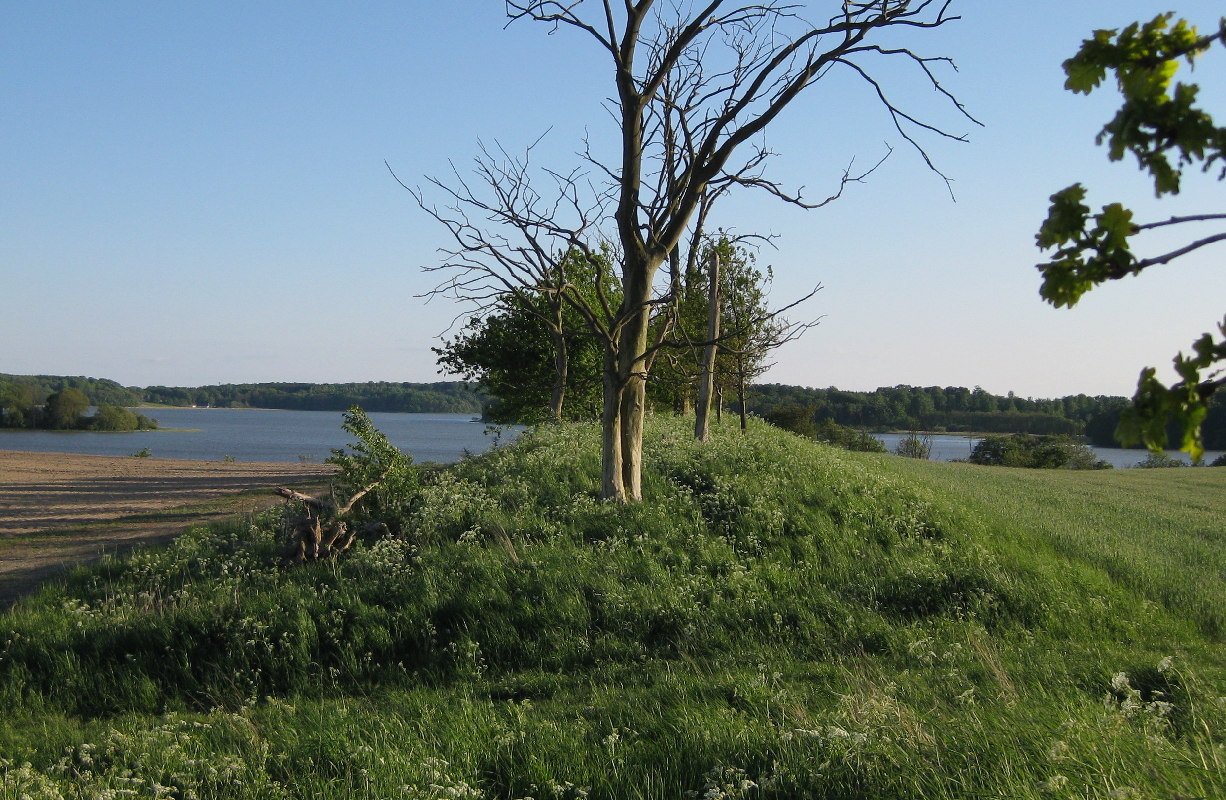 Ancient lake fort near Börringe, Svedala Municipality, Skåne, Sweden.